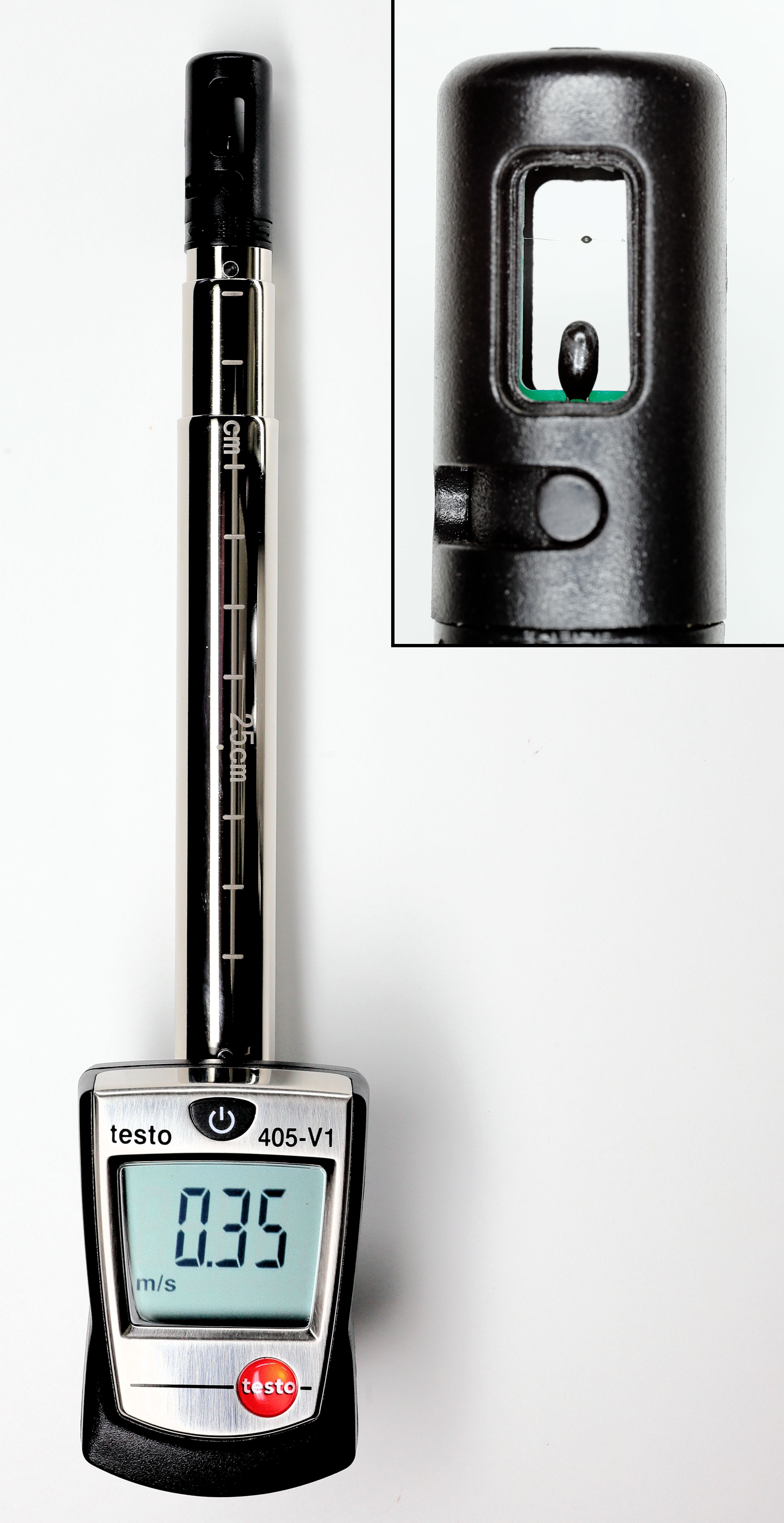 Hot-wire anemometer